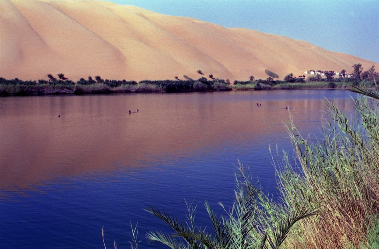 Description: Gaberoun lake Source: Taken by Qyd, PD Category:Images of Libya